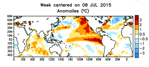 Global Tropical Sea Surface Temperature map, week centered 8 jul 2015. part of: Global Tropical Sea Surface Temperature Animation. Weekly averaged sea surface temperatures (top, °C) and anomalies (bottom, °C) for the past twelve weeks. SST analysis is the optimum interpolation (OI) analysis, while anomalies are departures from the adjusted OI climatology (Reynolds and Smith 1995, J. Climate, 8, 1571-1583. (Text after NOAA, Global Tropical Sea Surface Temperature Animation) Illustrates 2015 European and U.S. Wast coast heat waves.